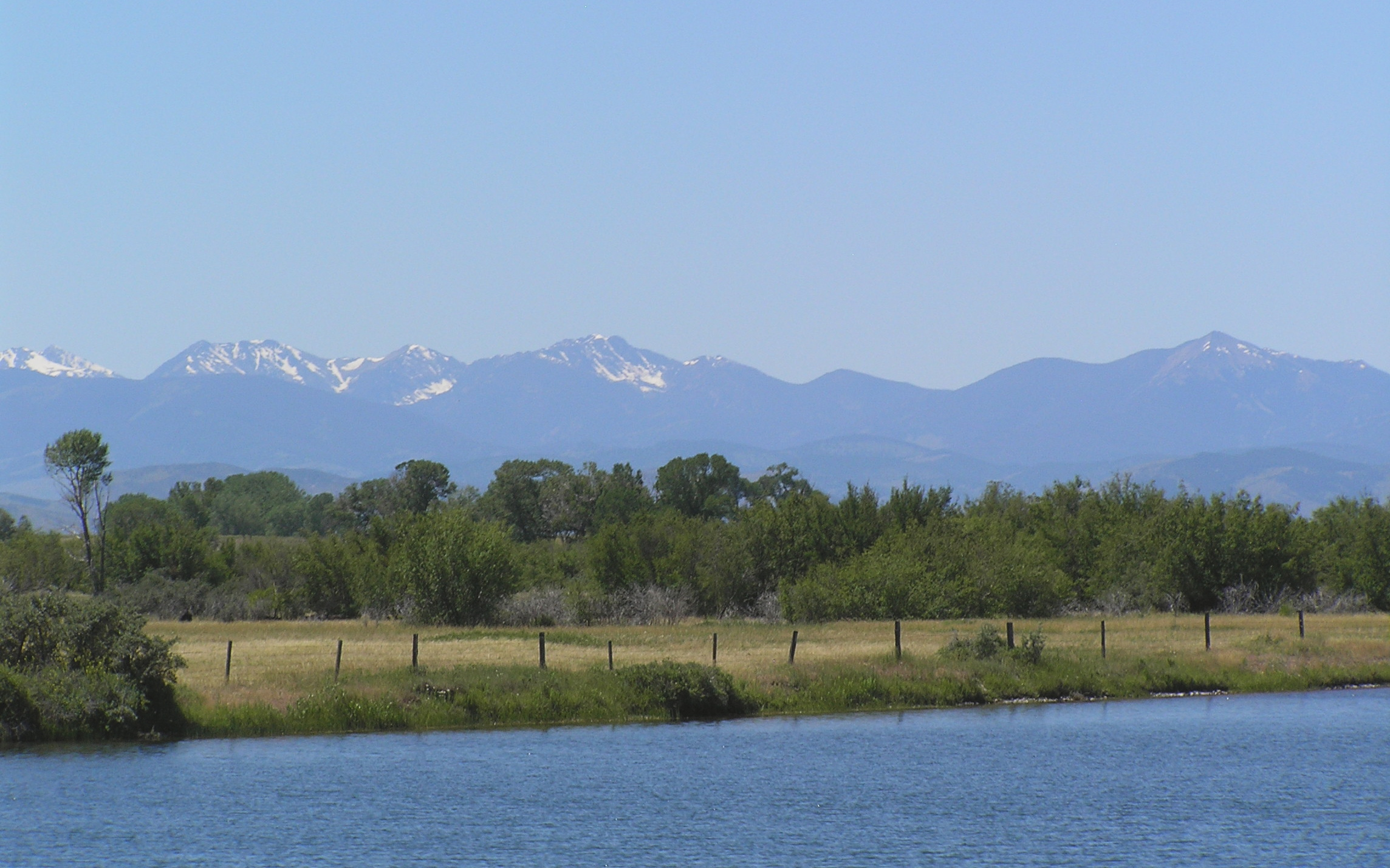 Tobacco Roots mountain range as seen from I-90, east of Three Forks, MT (manmade pond in foreground)